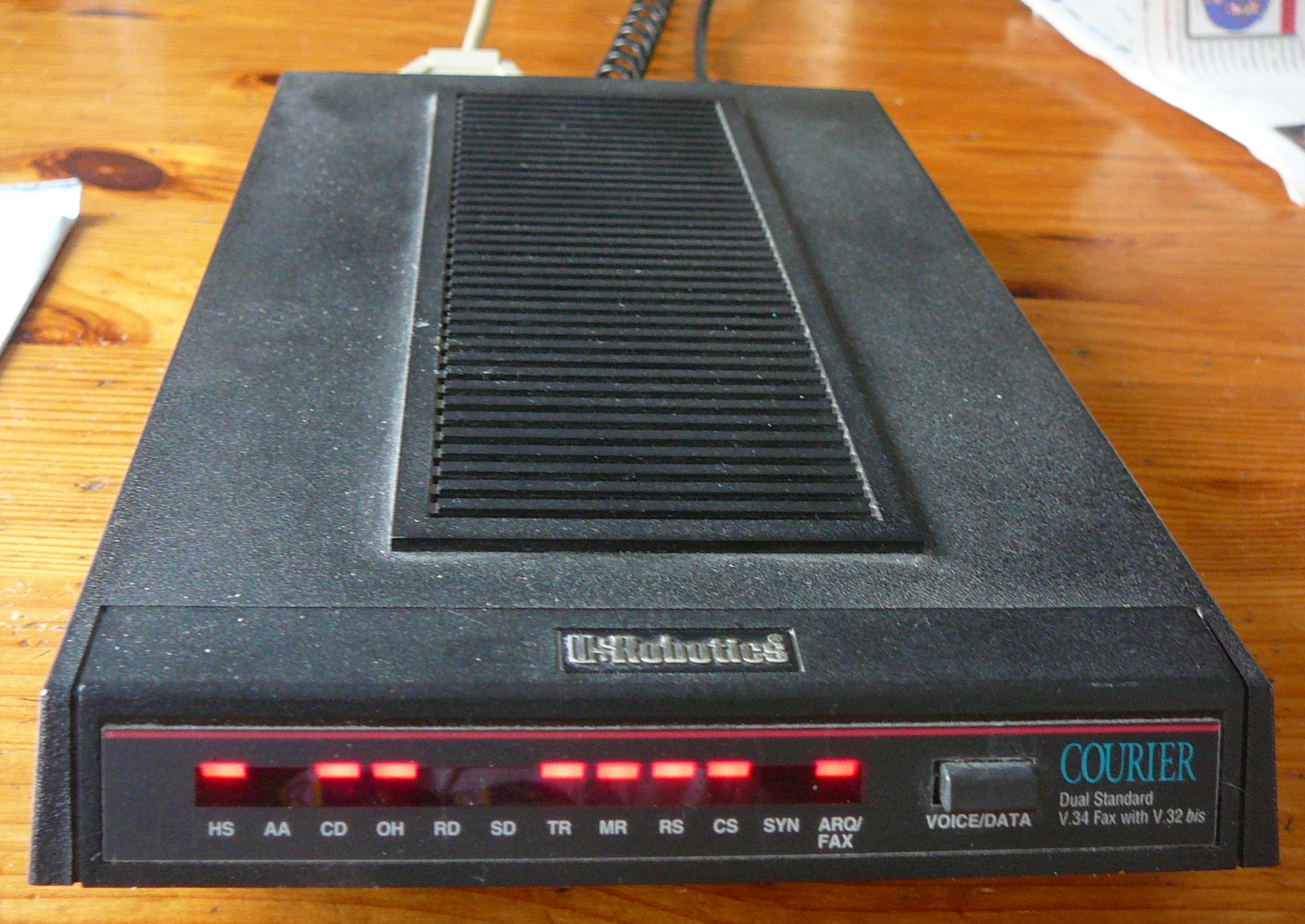 US Robotics analog modem Courier V34. Front view. On line, with LEDs CD, HS and ARQ on.